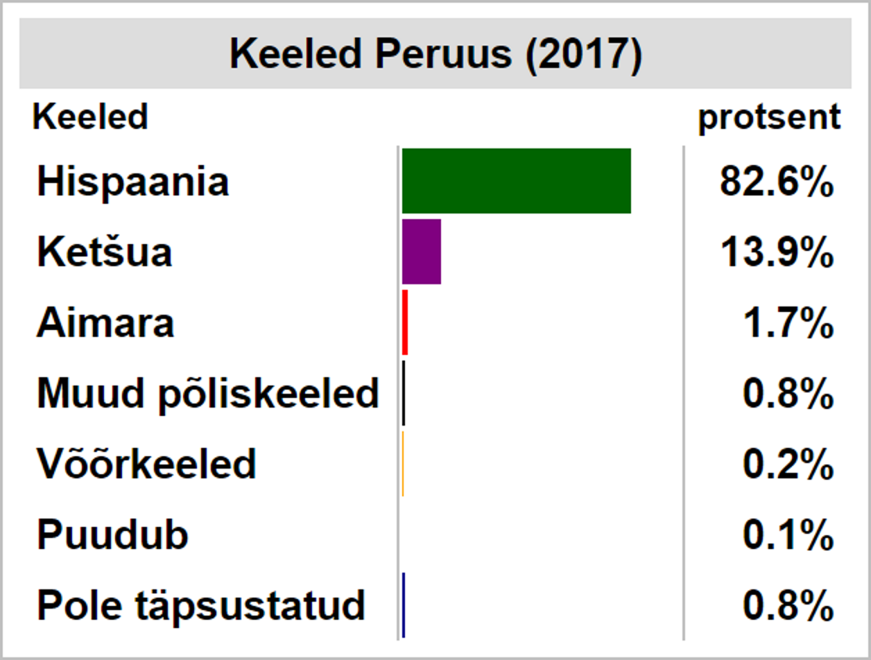 Languages in Peru 2017